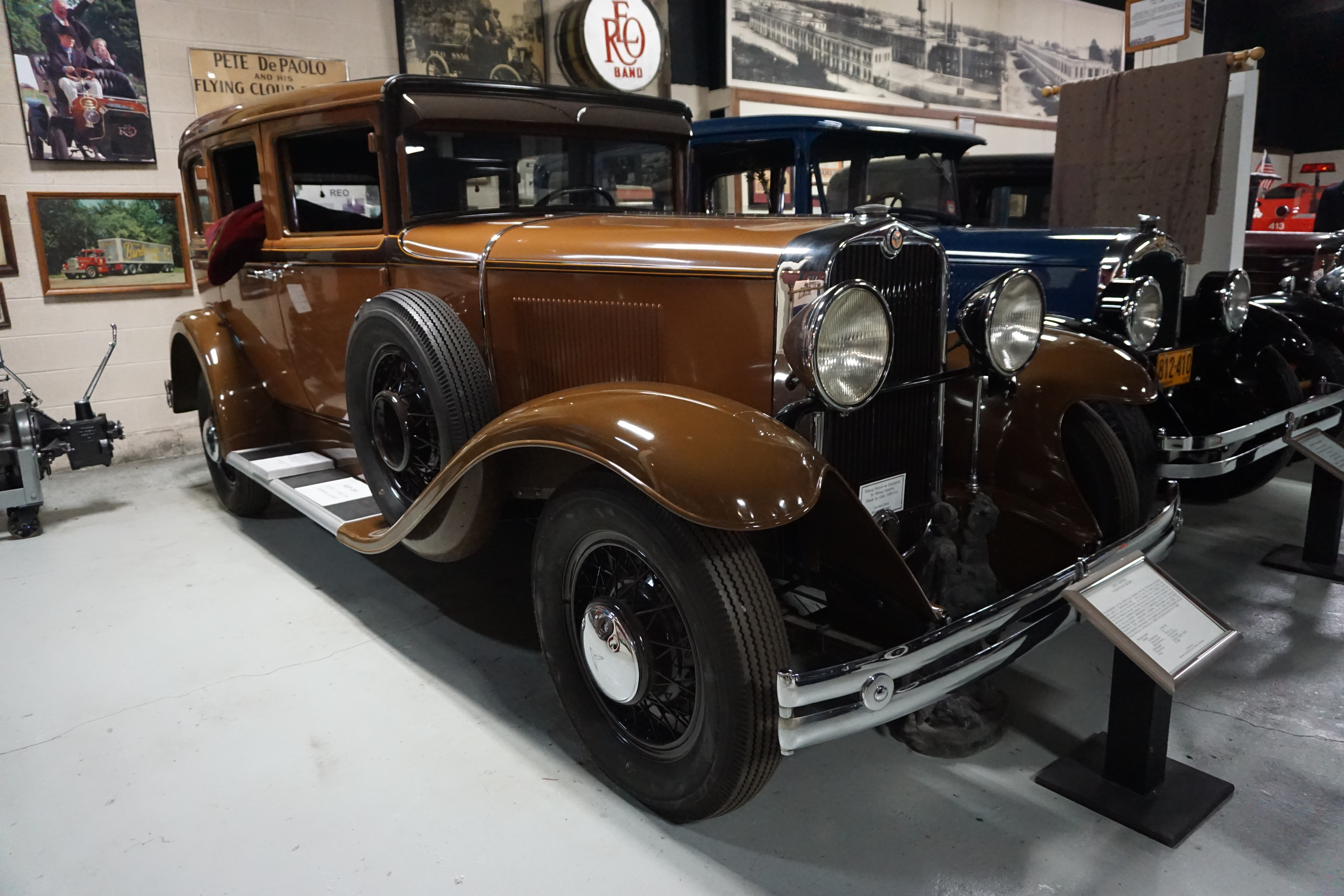 A 1930 Viking four-door sedan at the R. E. Olds Transportation Museum in Lansing, Michigan (United States).